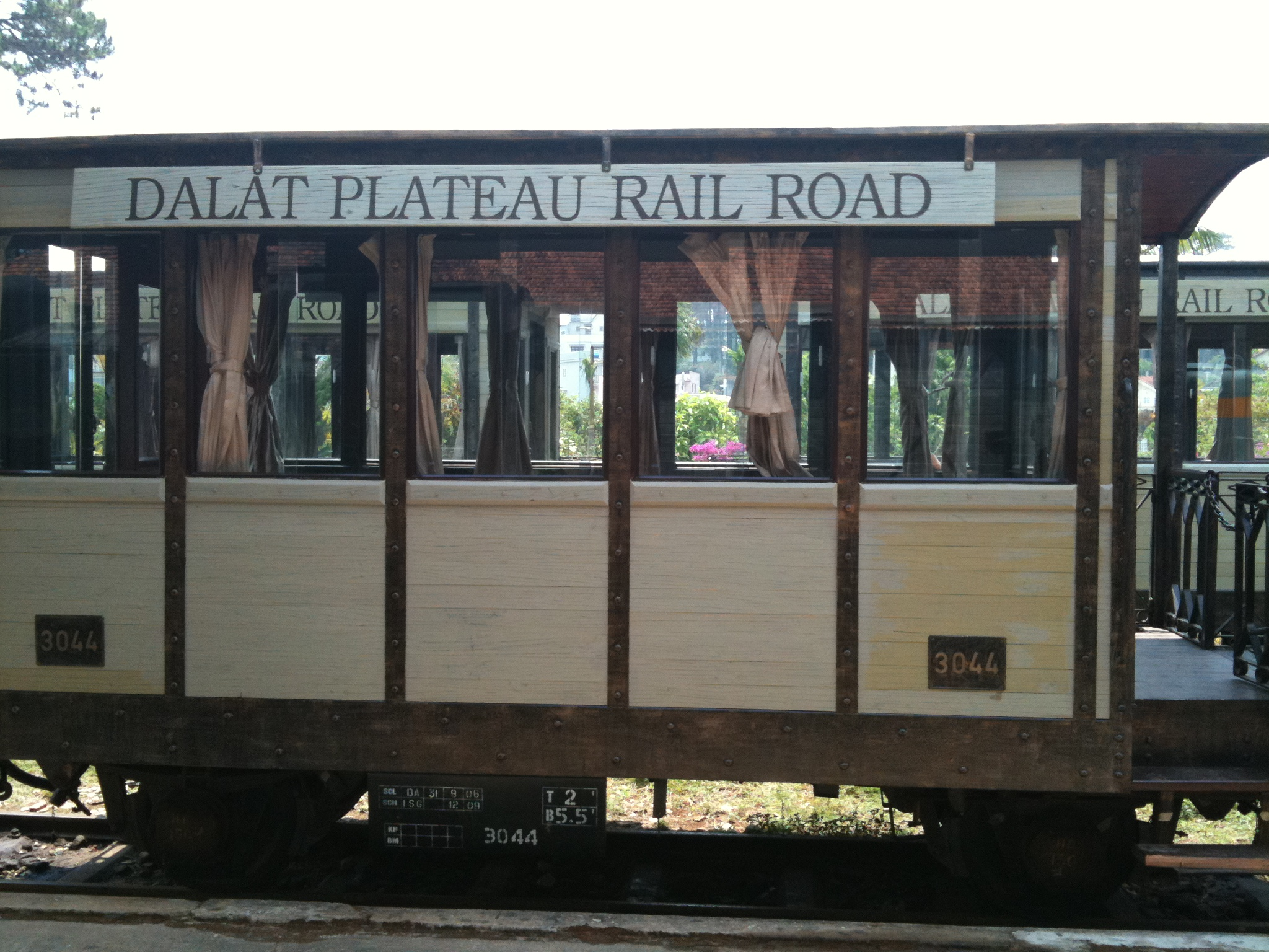 A railroad car marked "Dalat Plateau Rail Road", operating as a tourist train along a 7 km span between Da Lat Railway Station and the nearby village of Trai Mat. This car is one of four recently restored railway cars from the era of the Ca Lat-Thap Cham cog railway, originally built in the 1930s.